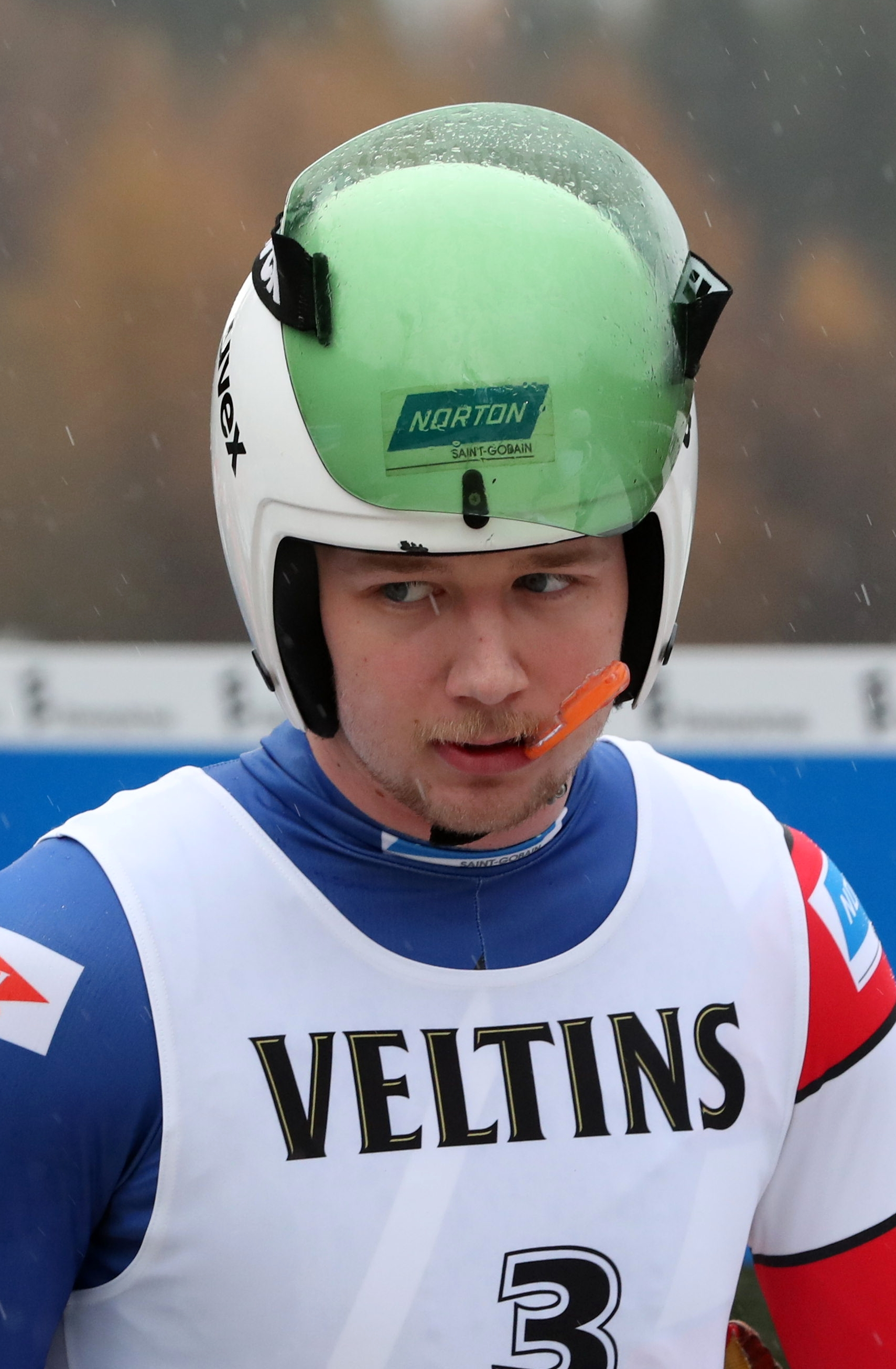 Doubles Nationscup race in Winterberg: Justin Garret Krewson